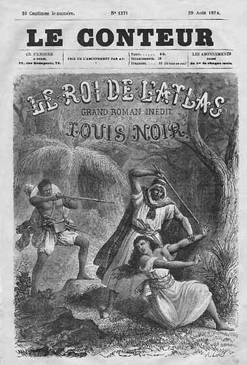 Home page of "Le Roi de l'Atlas" in "Le Conteur" 1874